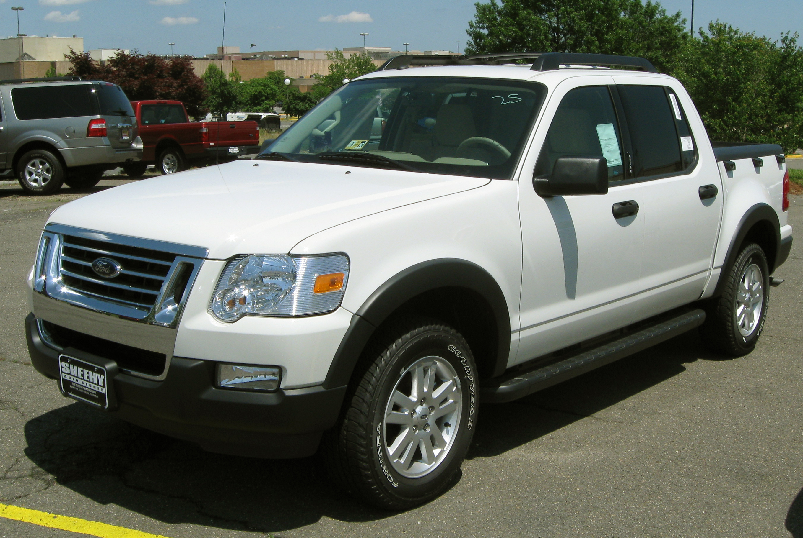 2009 Ford Sport Trac photographed in Springfield, Virginia, USA.